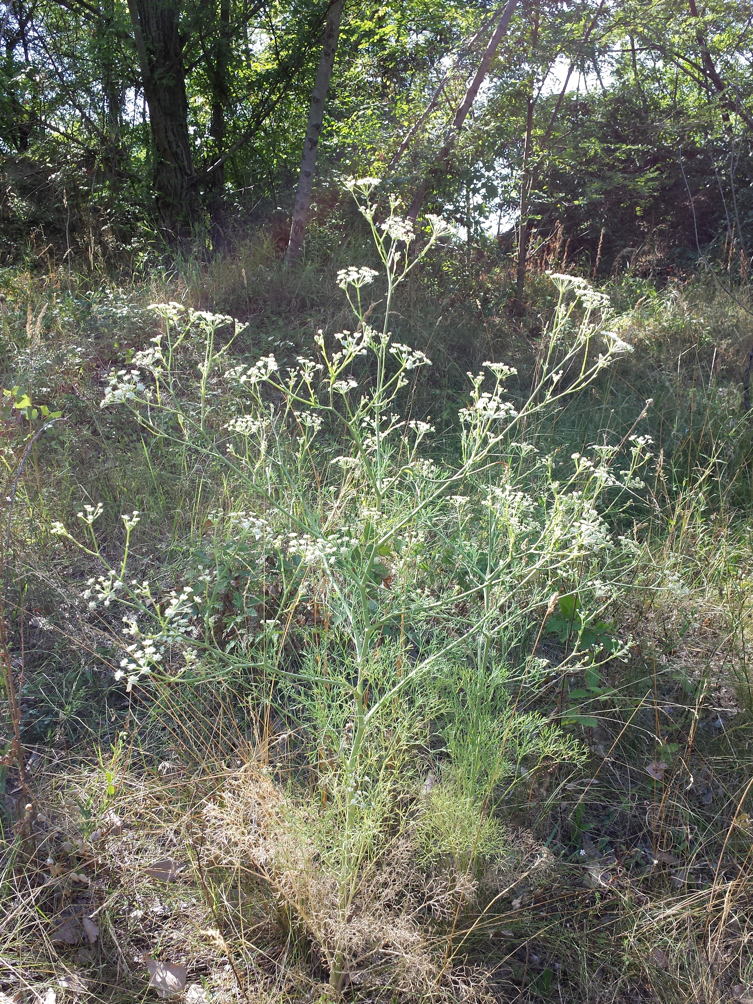 Habitus Taxon: Seseli campestre (sensu Fischer et al. EfÖLS 2008) Location: old marshalling yard Breitenlee, Vienna-Donaustadt - ca. 160 m a.s.l. Habitat: dry clearing